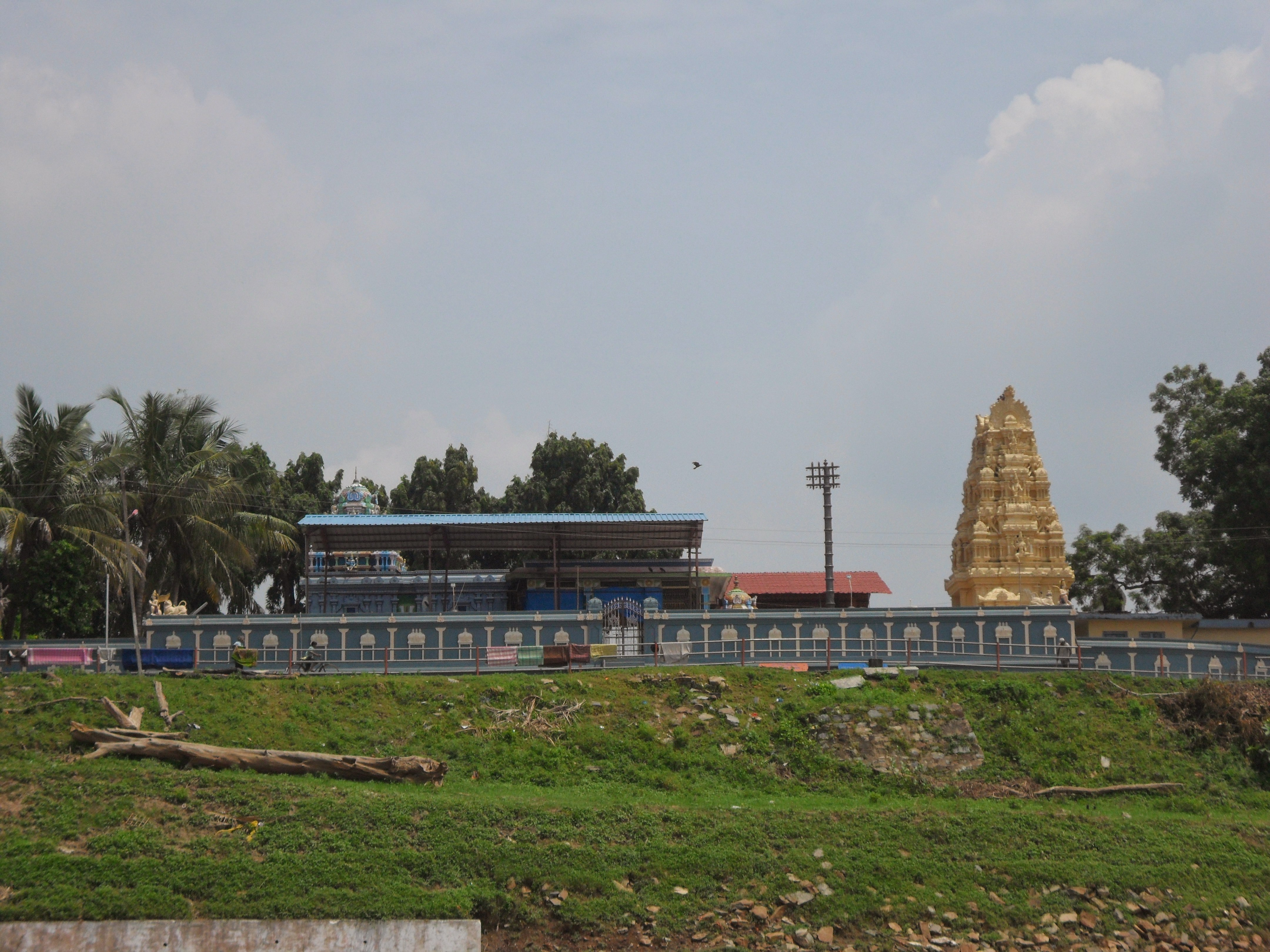 Picture of Lord ram Temple in Parnasala